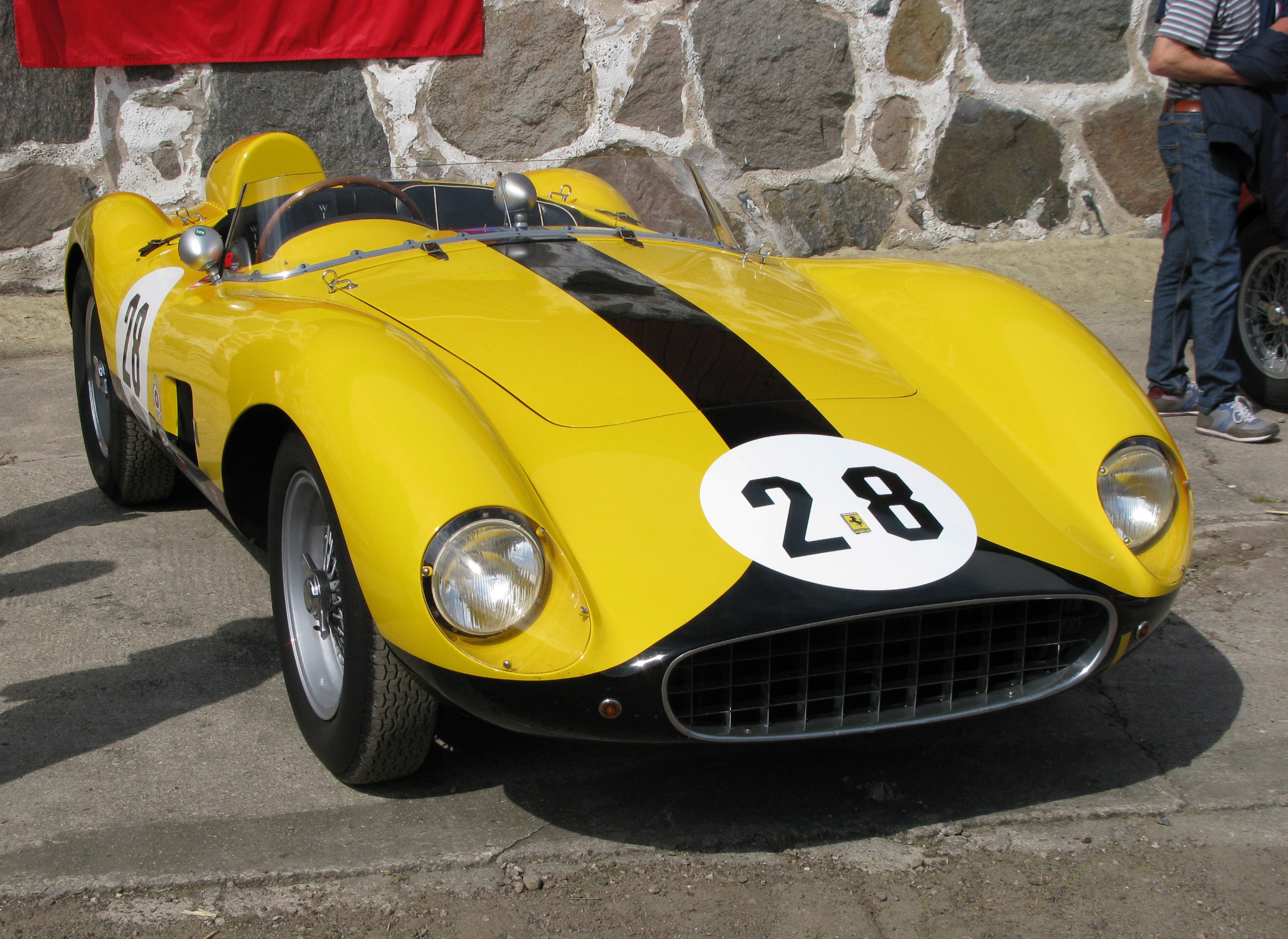 Belgian drivers Georges Harris and André Liekens finished 3rd in Sportscar Class 2 -2000cc in this car at Swedish Grand Prix in 1957.Event: 60 year anniversary of the Swedish Grand Prix in Kristianstad.